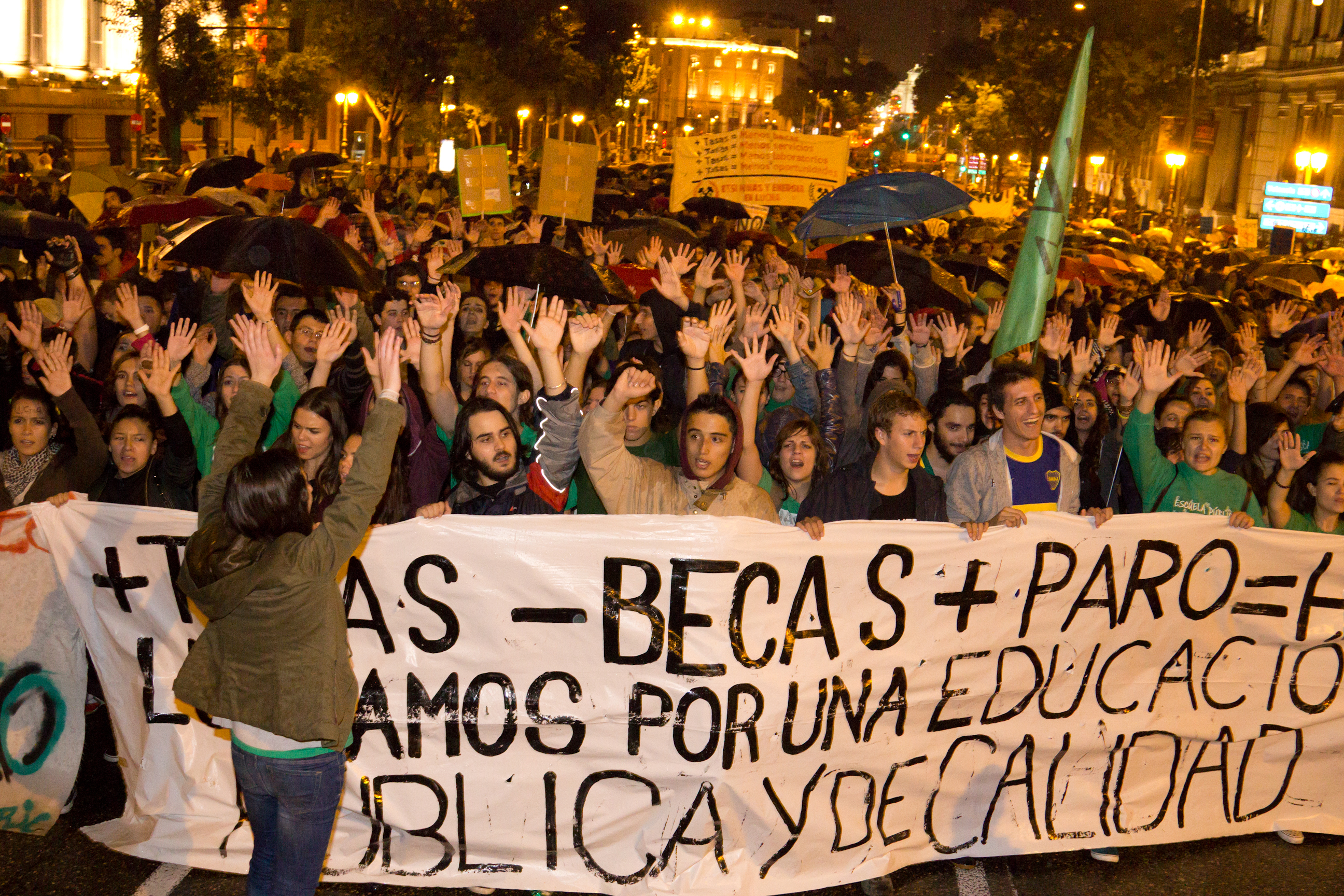 Demonstration in Madrid against cuts in education and education law reform.